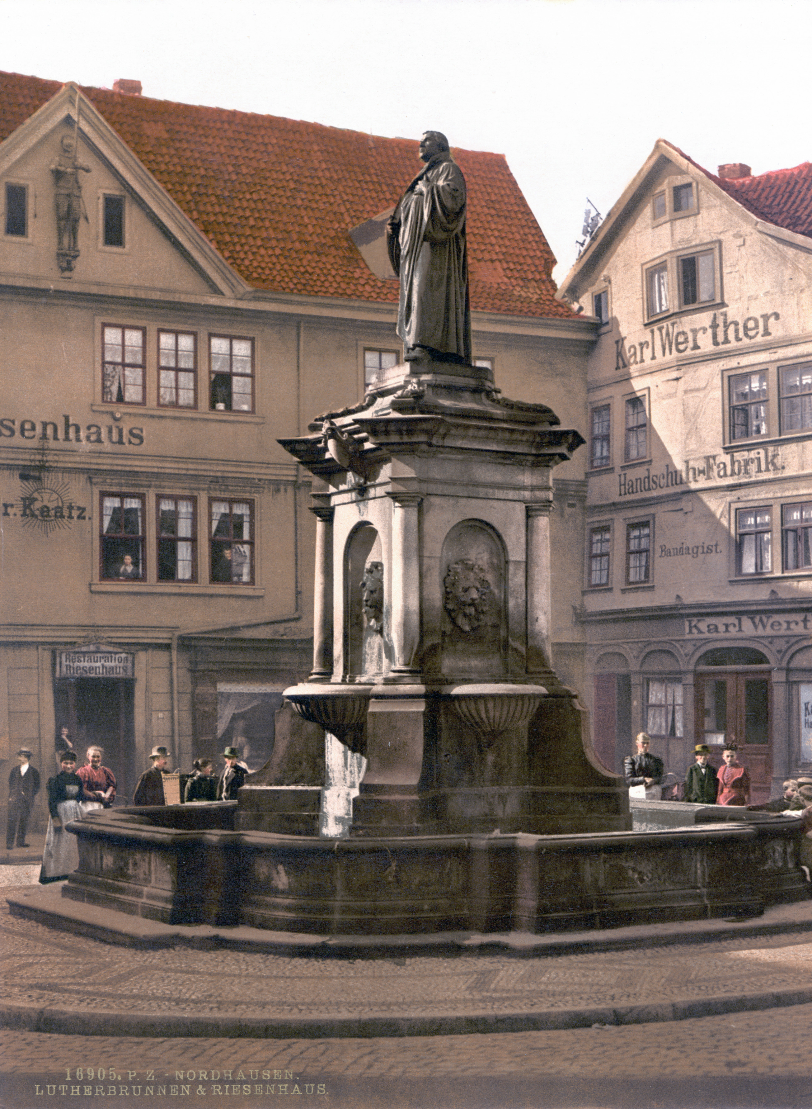 Sculpture by Carl (or Karl) Schuler (1847-1886). Fountain inaugurated 1888, 1936 removed. The sculpture was then moved to a place near the city hall of Norhausen. It was removed and probably melted down in 1943.